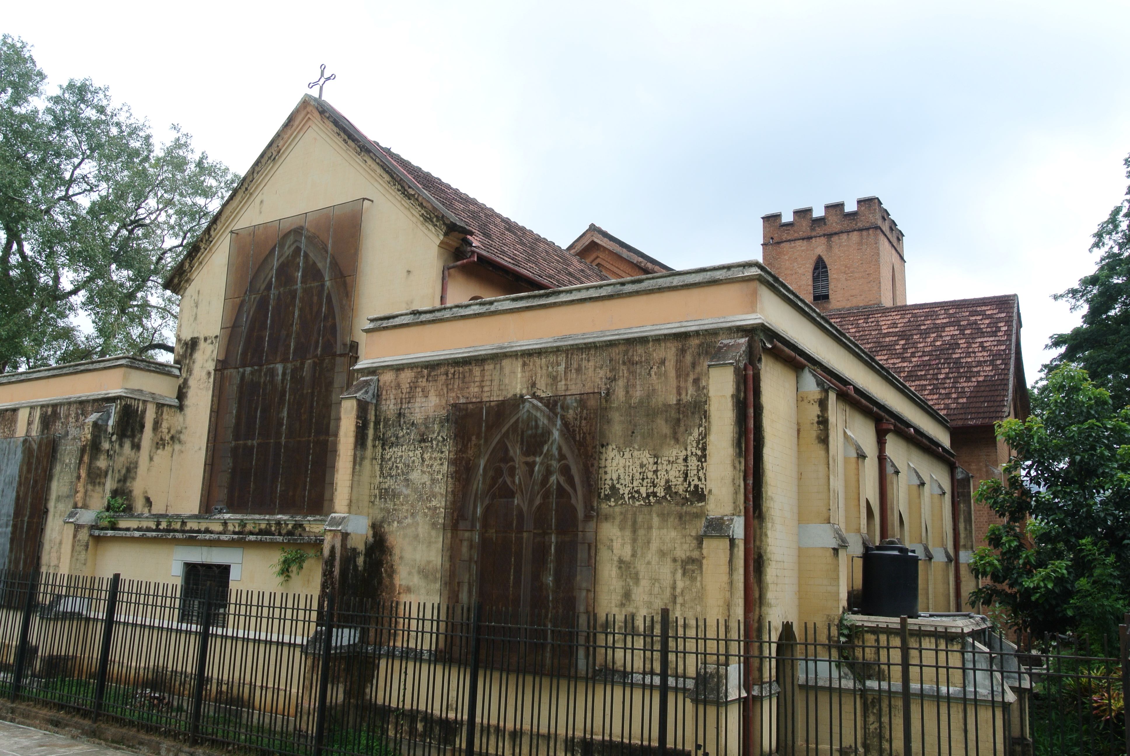 Backside (eastern side) of St. Paul Church in Kandy.